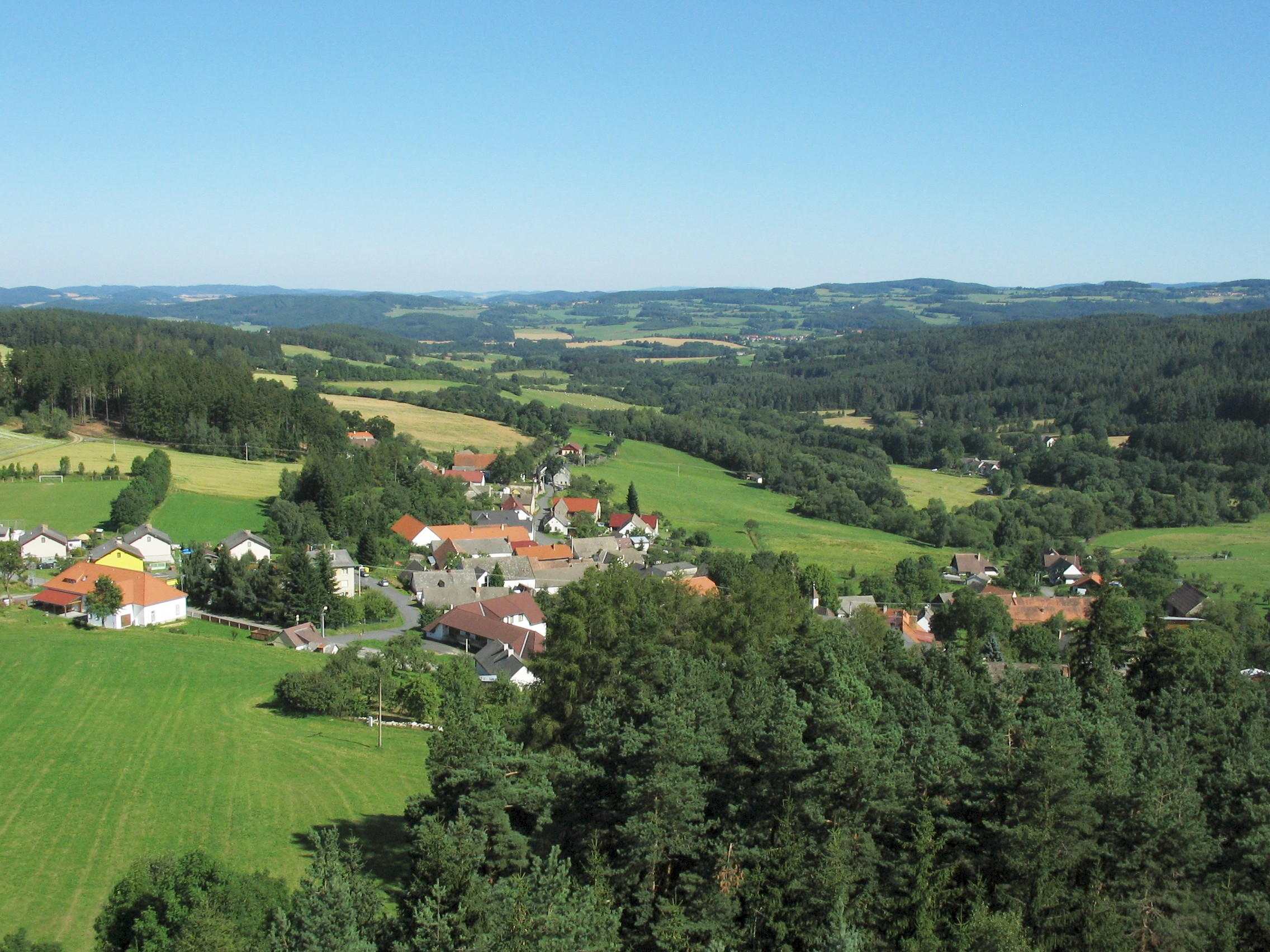 View of the Czech village Hoslovice from local outlook-tower, Strakonice District